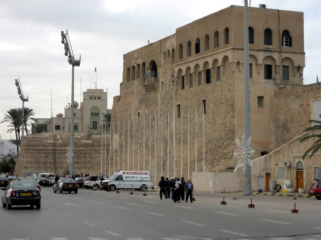 The Al-Saraya al-Hamra Fortress stands between Tripoli's old and new quarters.